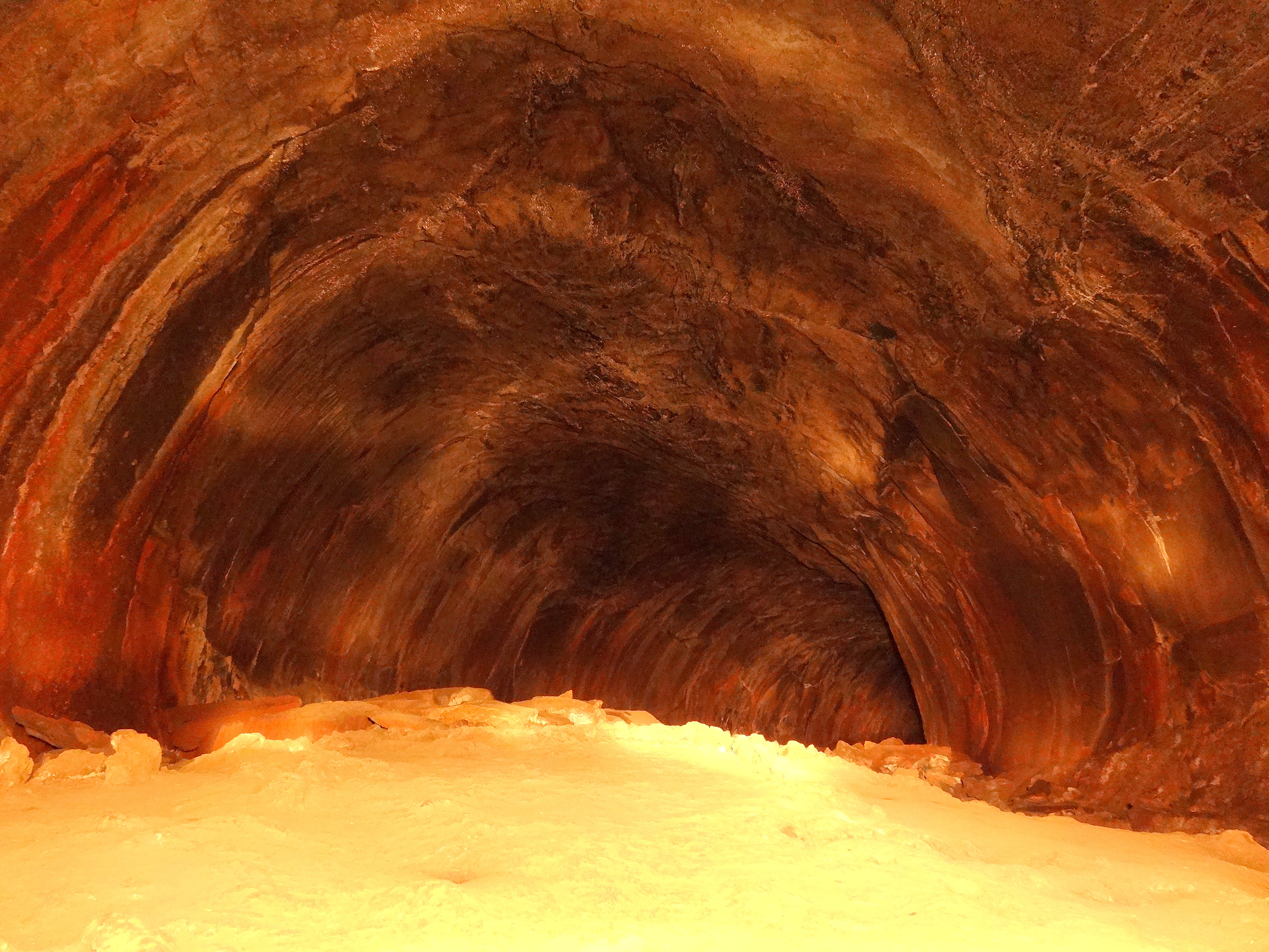 30 seconds long time exposure captured from inside the lava tunnel. The illumination done by using 2 flashlights.